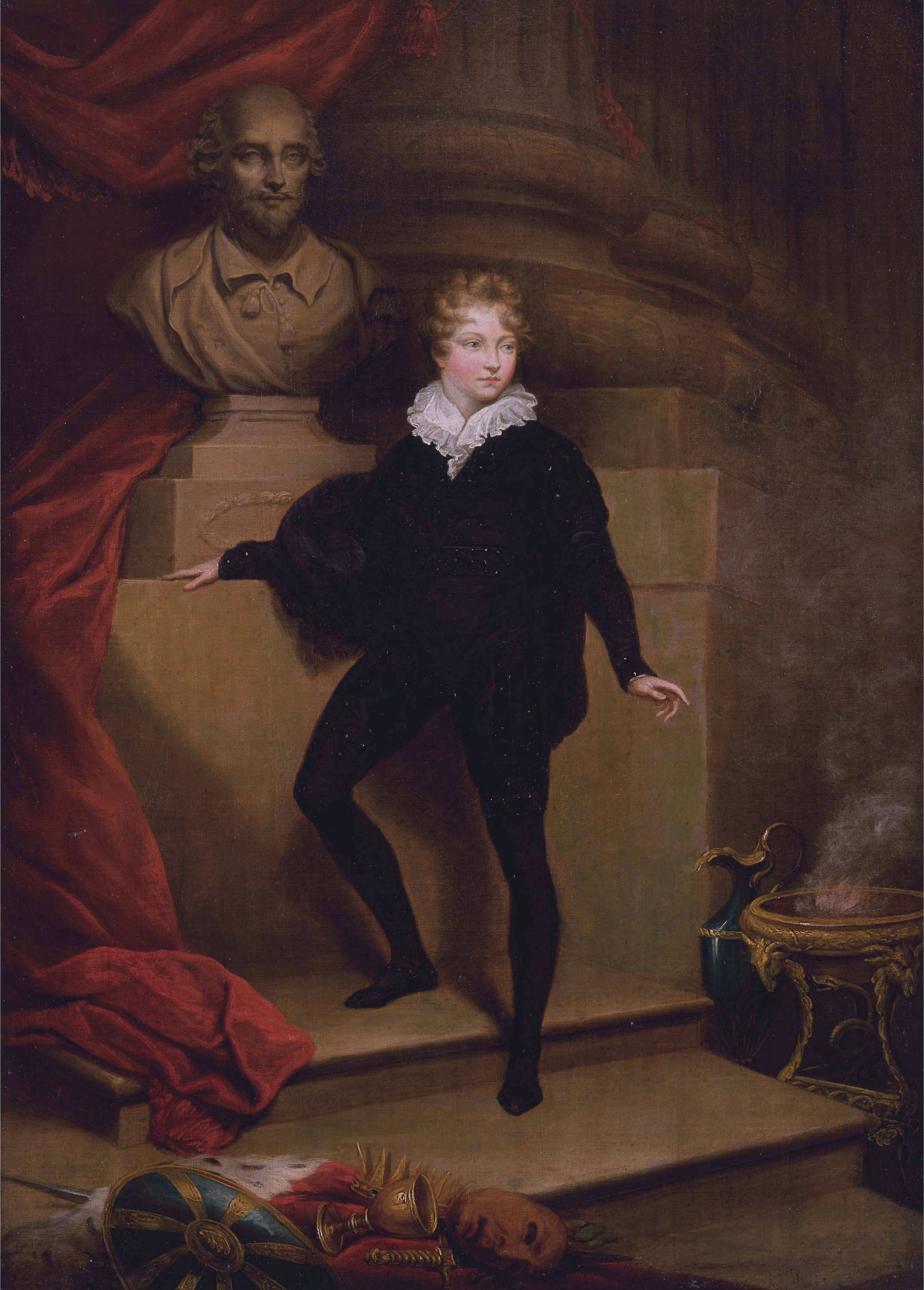 Master Betty as Hamlet, before a bust of Shakespeare oil on canvas 55.9 x 40.6 cm